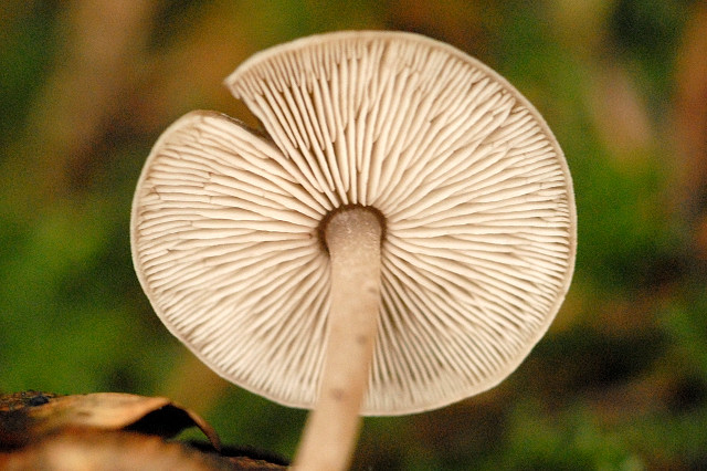 Baeospora myosura from Commanster, Belgium. The determination of the species shown in this picture has been verified.